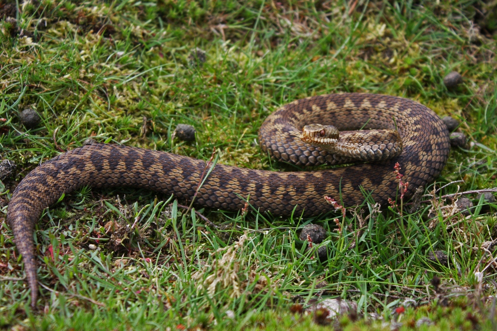 This female adder was basking in the sunshine on Thursley common in Surrey.